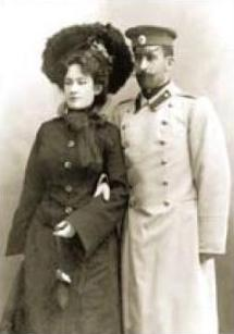 The Georgian officer Christophor Chkhetiani and his wife Eugenia Chkhetiani nee Pleshcheyeva